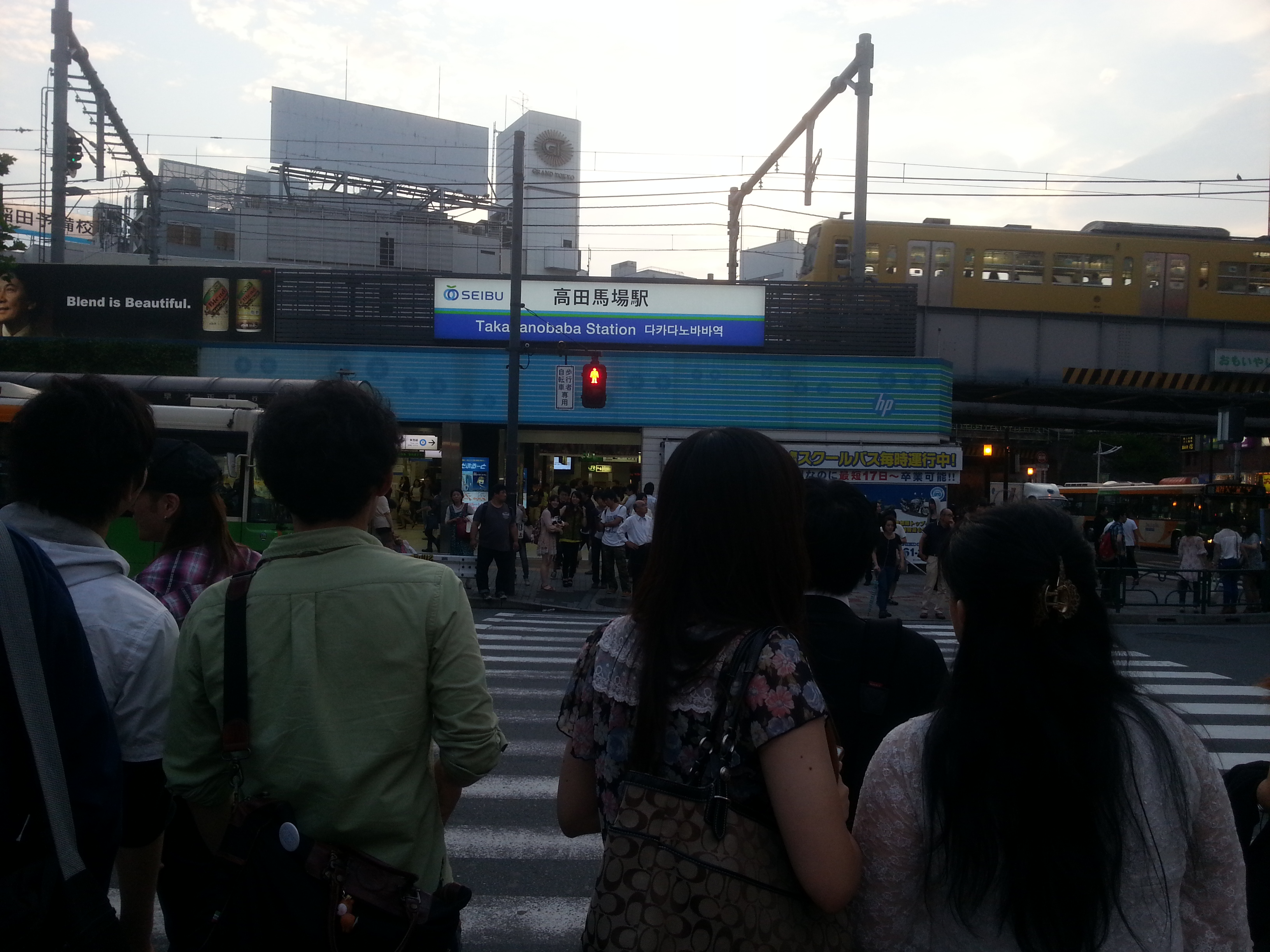 Seibu Takasanobaba station